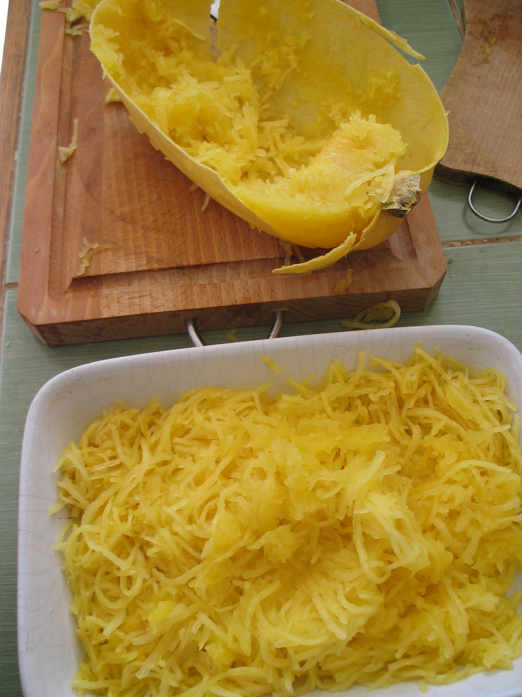 Spaghetti Squash cooked